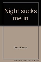 poem written by Freda downie